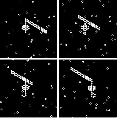 A universal constructor in the DigiHive environment. The constructor builds a ring shape according to its description encoded in an information string.